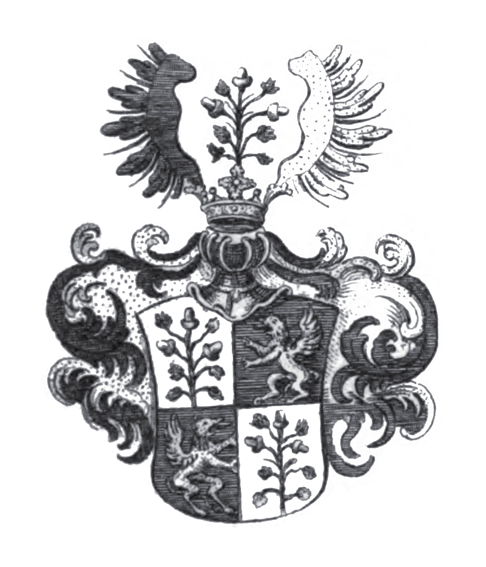 Coat of Arms of Aichen